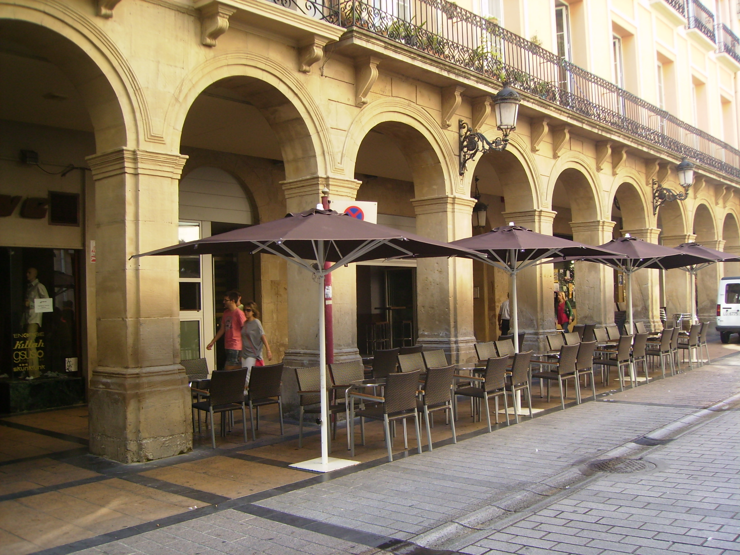 The porches of Portale,s Street.